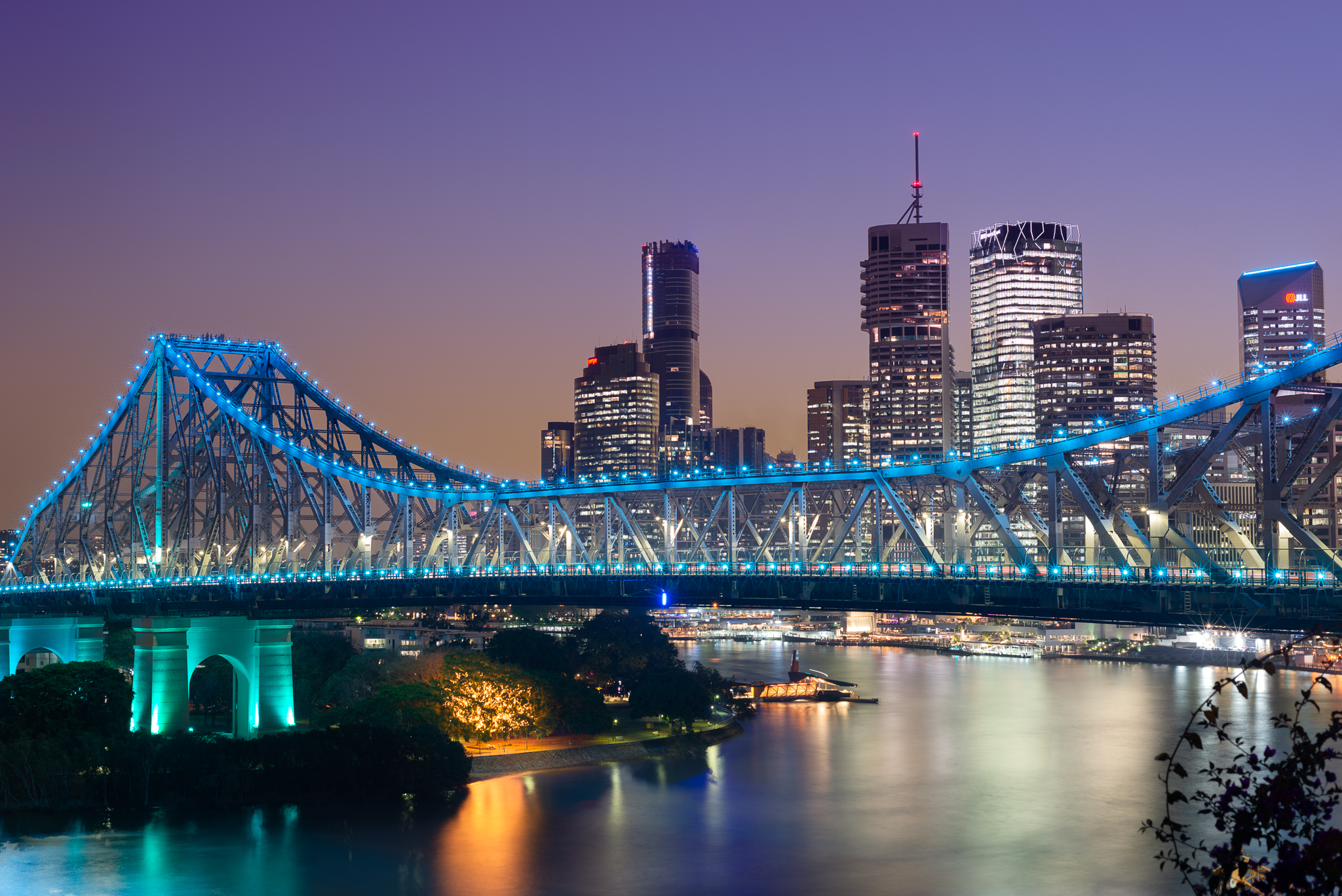 The Story Bridge in Brisbane QLD Australia shot from Wilson's Outlook.